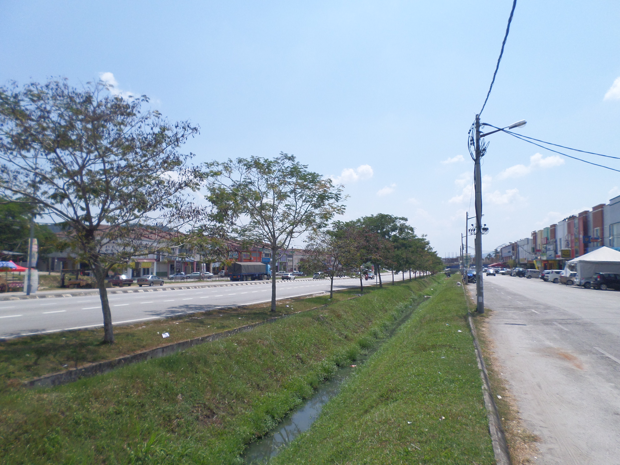 Batang Kali, Hulu Selangor, Selangor, Malaysia